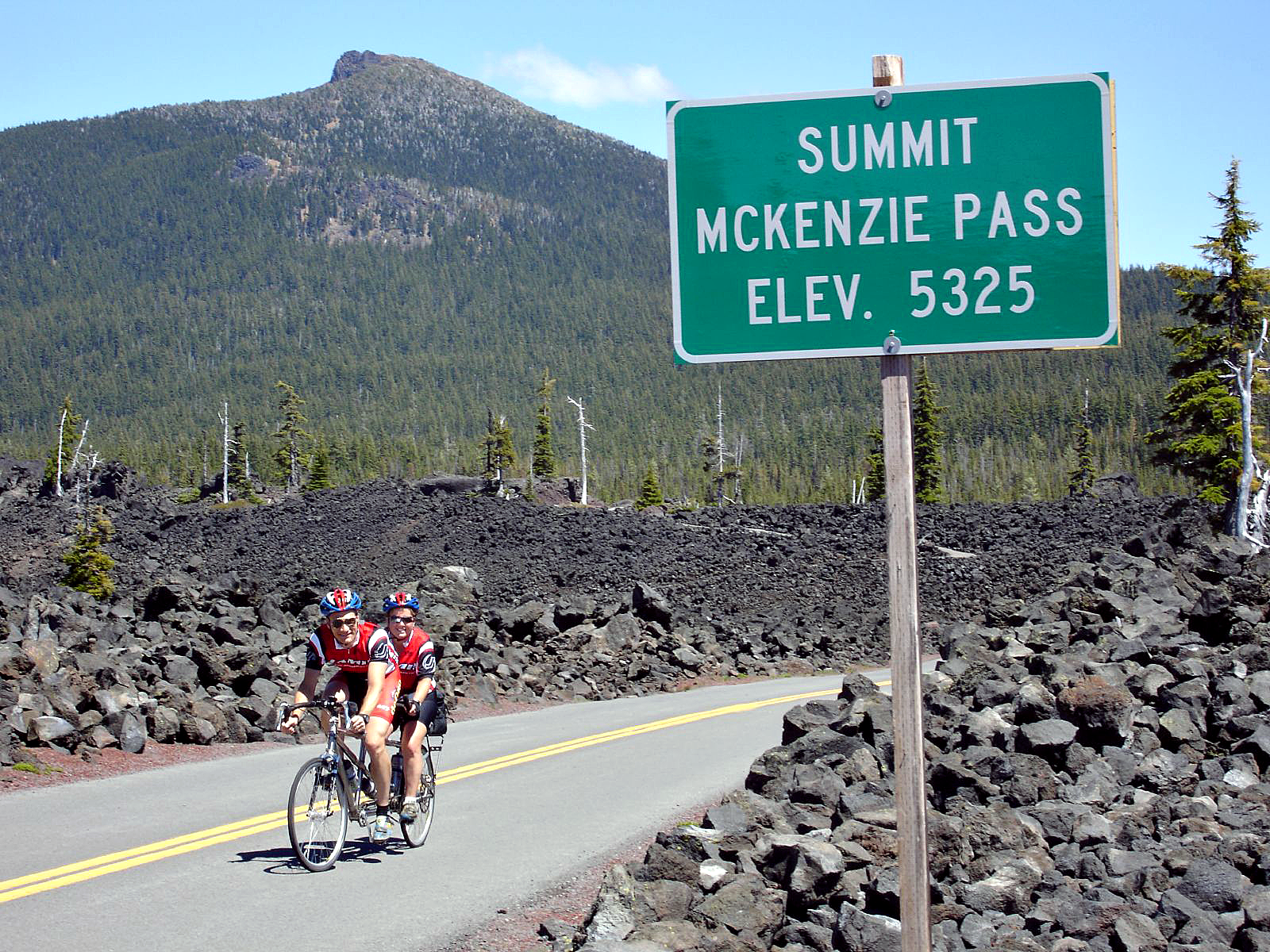 Cyclists cross and descend the McKenzie Pass on Oregon Route 242